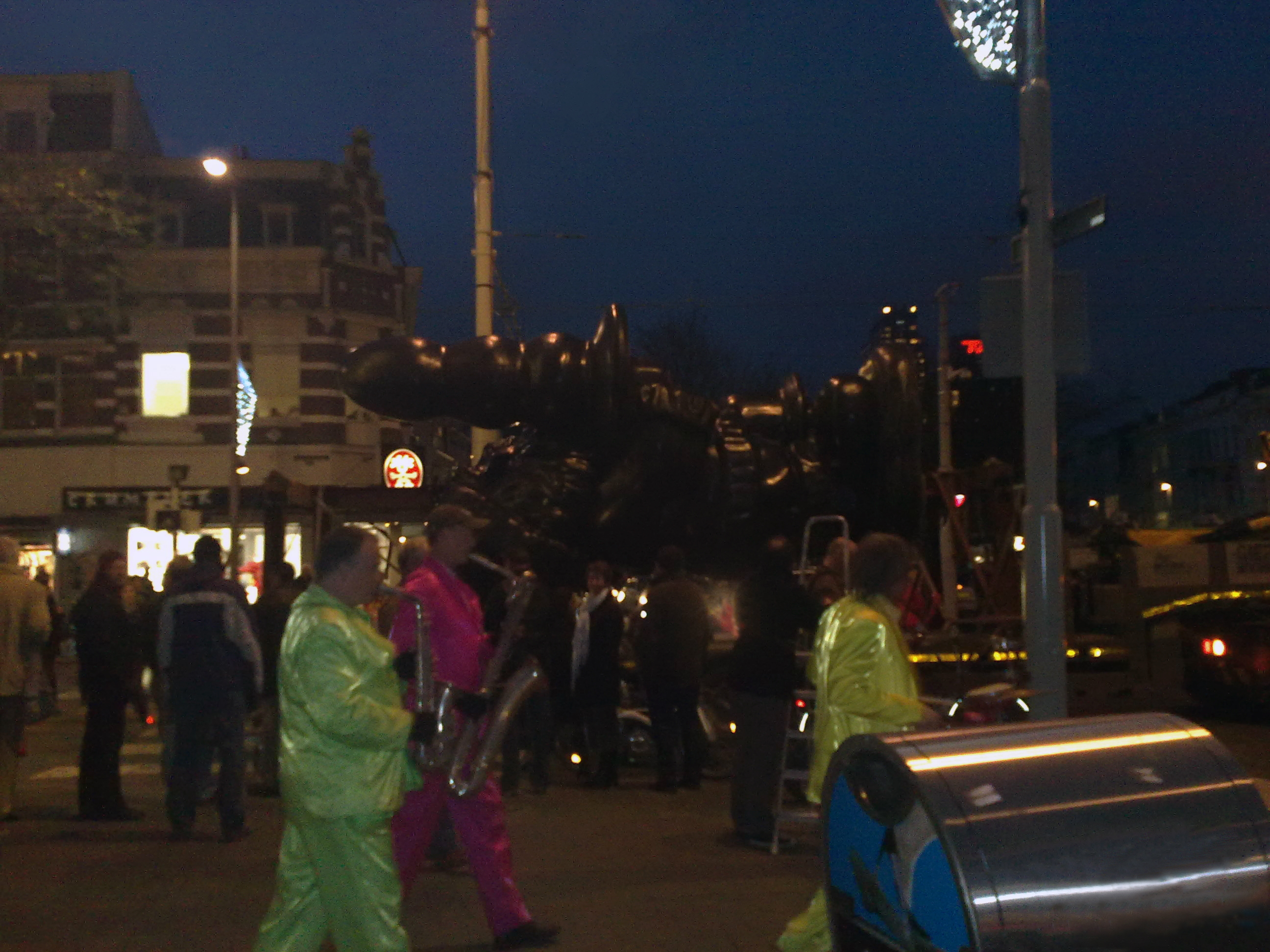 Statue festivaly being placed on Eendrachtsplein